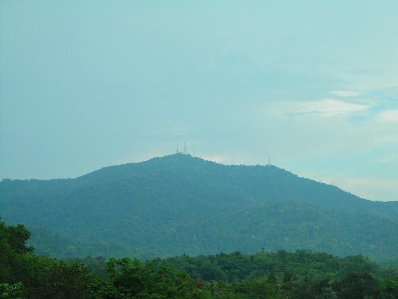 Natural habitat of Nepenthes benstonei from Peninsular Malaysia